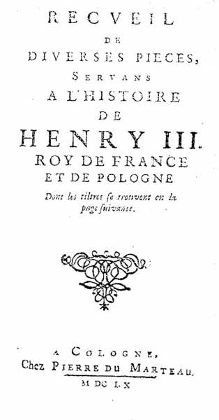 Recueil De Diverses Pieces, Servans A L'Histoire de Henry III, Roy De France Et De Pologne (Cologne: Pierre Marteau, 1660).